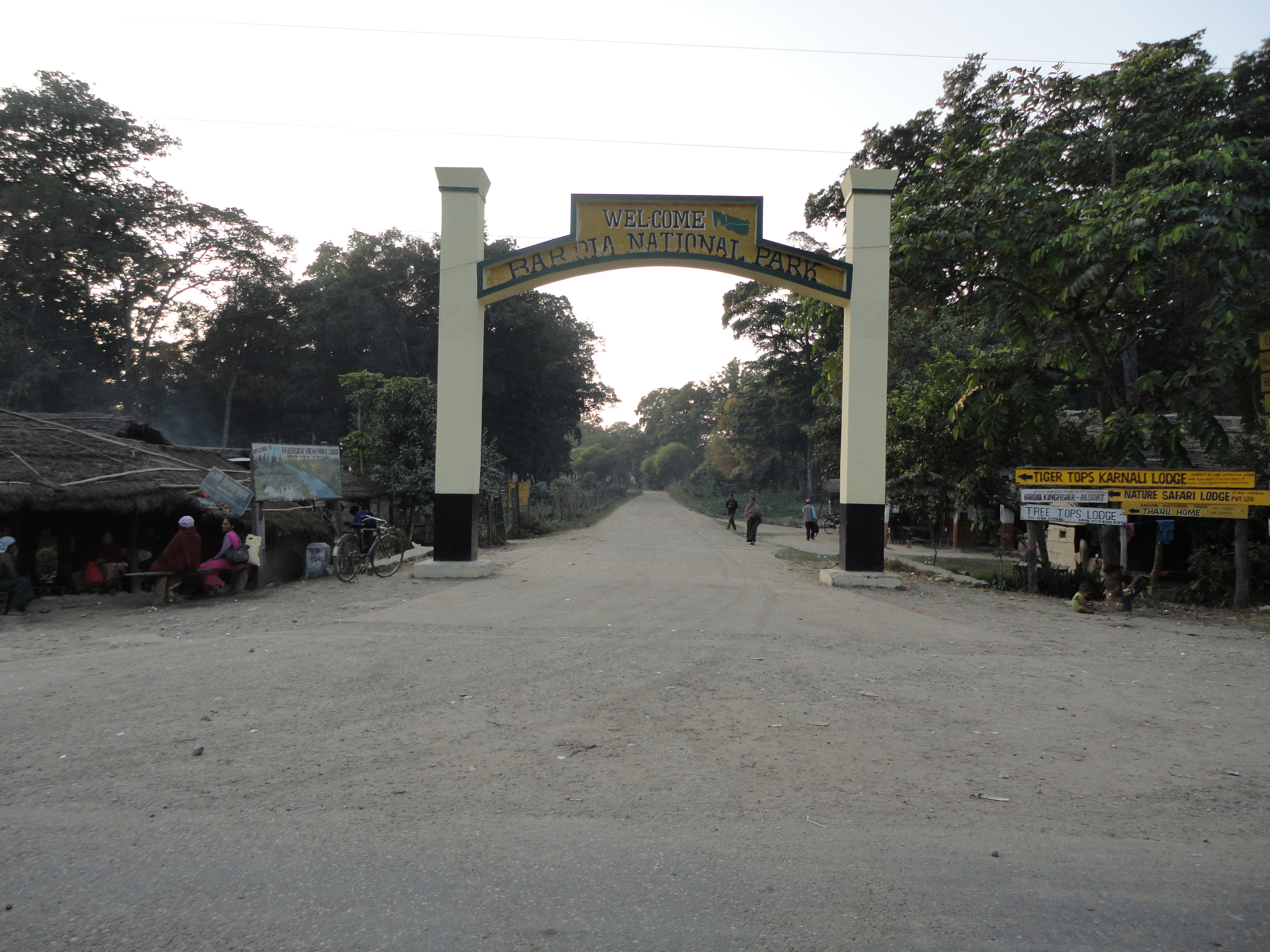 The gate of Bardiya National Park in western Nepal